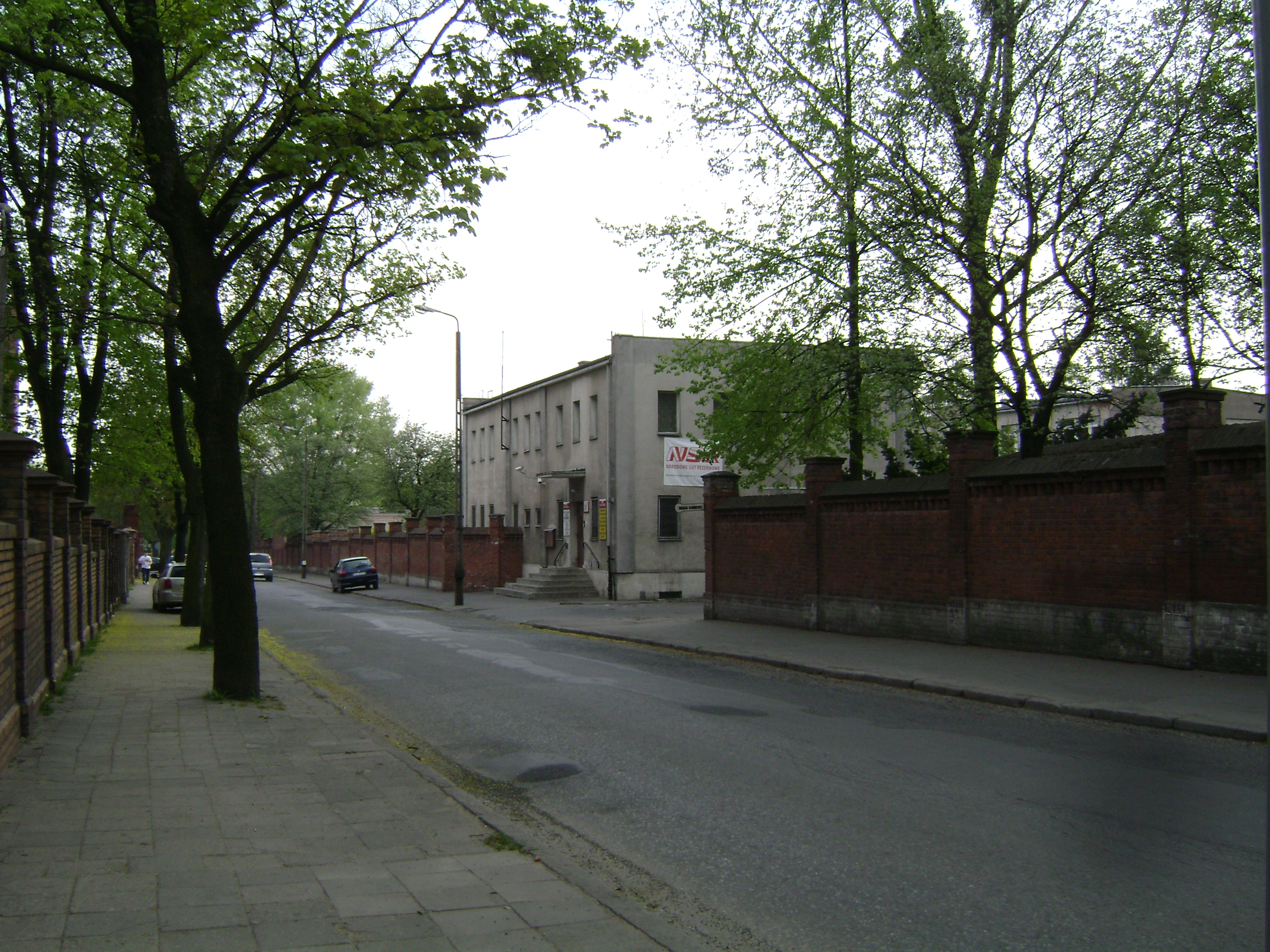 Barracks of 1OSK in Grudziądz, Bema street.